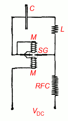 Schematic diagram of the Poulsen arc converter, an early radio transmitter invented by Valdemar Poulsen in 1903, from his 1904 paper. It was one of the first continuous wave radio transmitters capable of transmitting sound (AM), and was used in many of the first radio stations until the early 1920s, when it was replaced by vacuum tube transmitters. It consists of a continuous electric arc across a spark gap (SG) supplied with a DC voltage (VDC) of about 500 volts. A resonant circuit consisting of a capacitor (C) and an inductor (L) is connected across it. The negative resistance of the arc cancels the inherent positive resistance of the tuned circuit, exciting sinusoidal oscillations in the tuned circuit. The arc is inside a chamber of hydrogen gas, which allows higher frequency oscillations. The oscillations are encouraged by a magnetic "blowout", an electromagnet (M) that generates a magnetic field at right angles across the arc. At the peaks of the current the magnetic field exerts a a transverse force on the moving ions, "blowing" them out of the arc, cooling it, causing the current to decrease quickly. The radio frequency choke (RFC) prevents the oscillation current from passing through the power supply. Alterations to image: added labels (red) to the parts